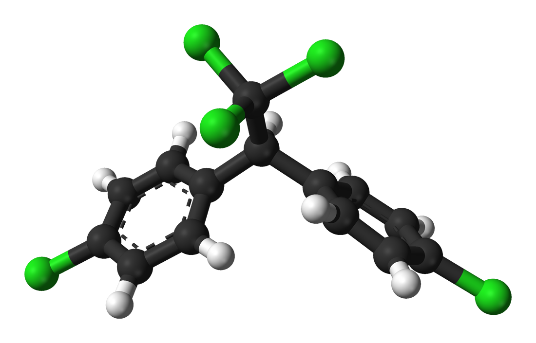 Ball-and-stick model of the DDT molecule, C14H9Cl5, as found in the crystal structure. X-ray diffraction data from J. Chem. Soc. Perkin Trans. 2 (1972) 2148-2153. Model constructed in CrystalMaker 8.1. Image generated in Accelrys DS Visualizer.